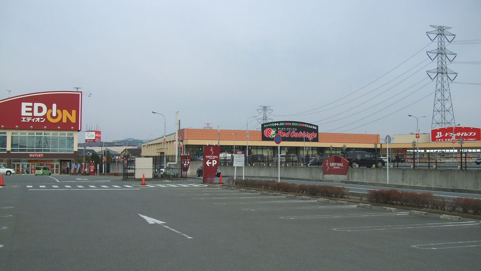 SUROY MALL CHIKUSHINO, Chikushino City, Fukuoka, Japan